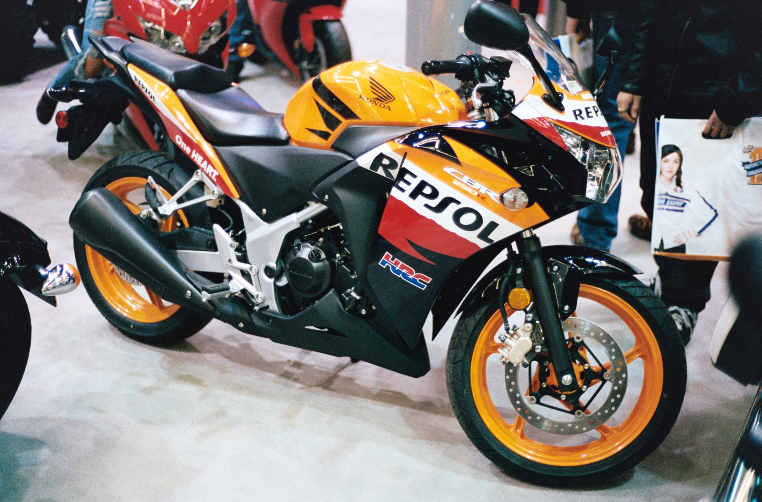 2014 Seattle International Motorcycle Show